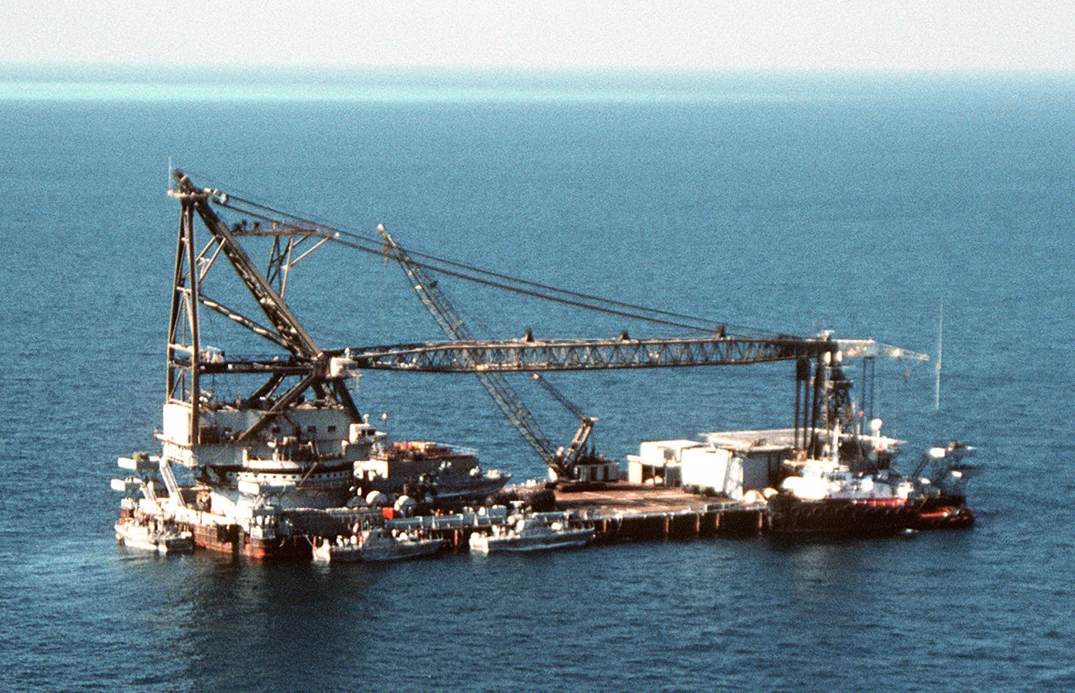 Location: Persian Gulf. An aerial view of the barge HERCULES with three PB Mark III patrol boats and the tug boat MISTER JOHN H tied up alongside. The barge is operating in support of Navy efforts to provide security for US-flagged shipping in the gulf.